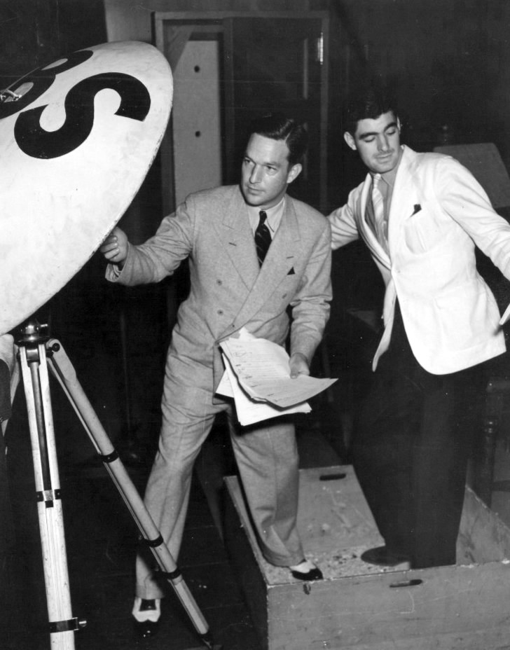 Publicity photo from the radio program Gang Busters showing how some sound effects were created for the program and also the use of a parabolic microphone to transmit them. The parabolic microphone was able to amplify effects. The photo depicts the sound team trying to create an effect of people running through a gravel yard.